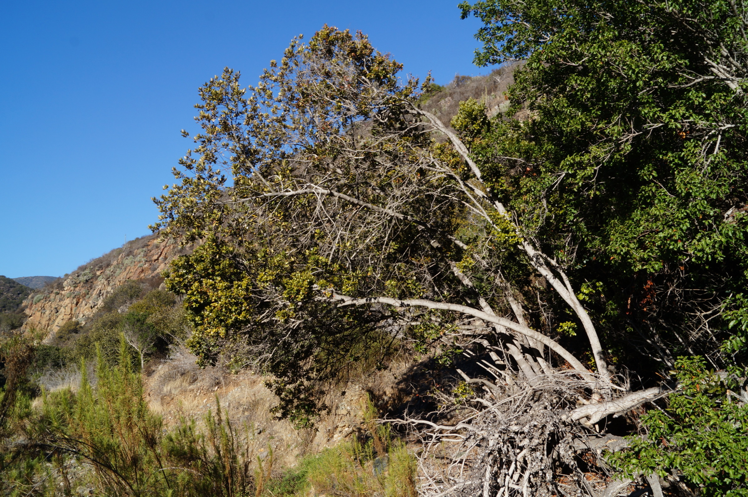 Pouteria splendens